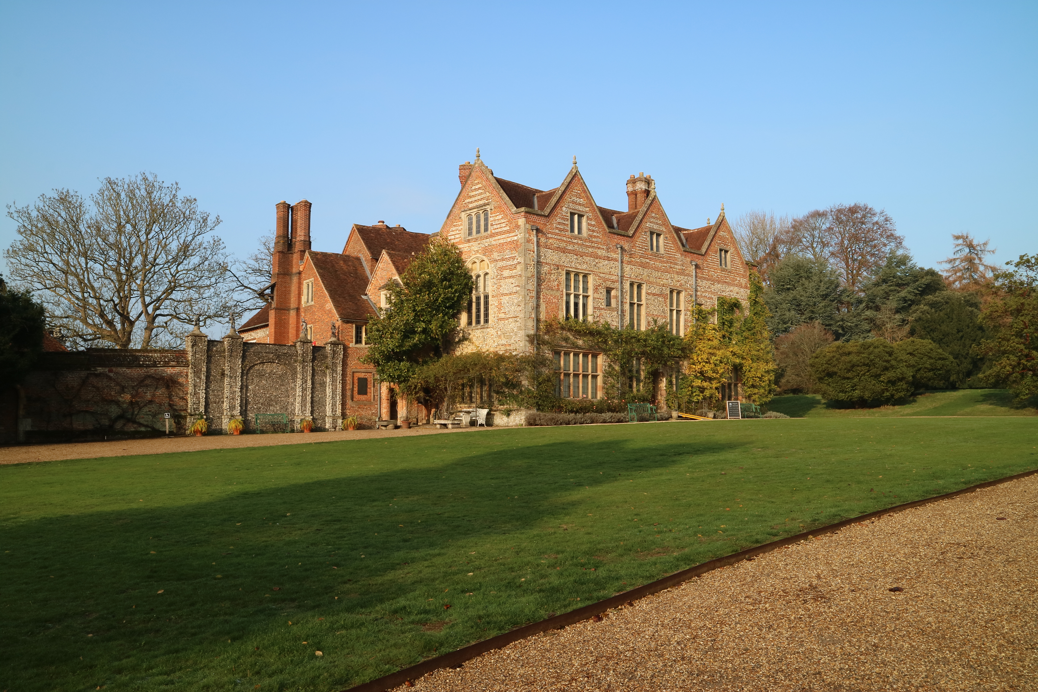 The main house of Greys Court, Oxfordshire.